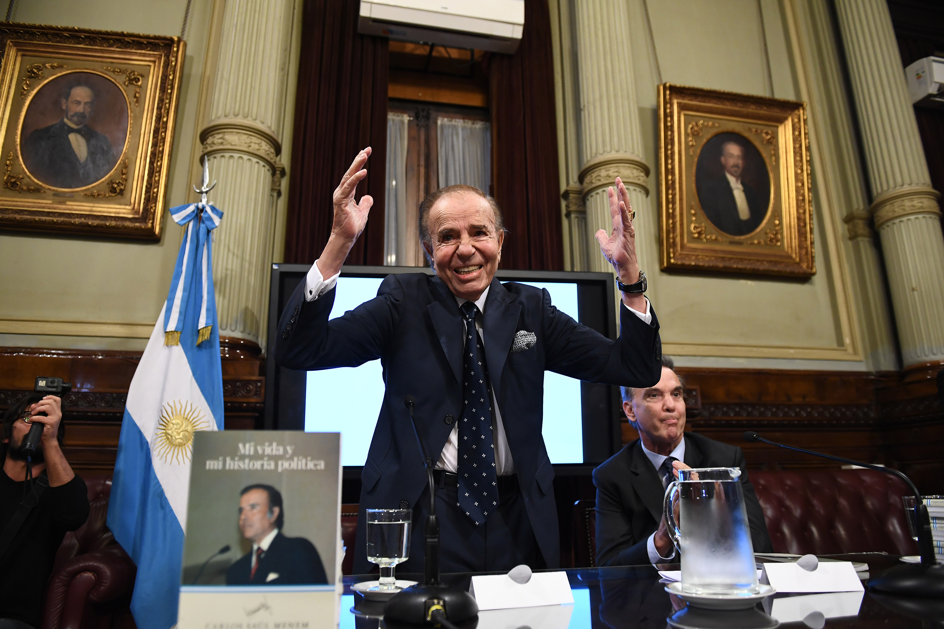 Presentación del libro del ex presidente Carlos Saúl Menem "Mi vida y mi historia política", en el salón Illia del Honorable Senado de la Nación, en Buenos Aires, Argentina, el 17 de mayo de 2018.